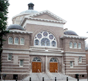 Audience chamber-facing picture from stage in the McGlohon Theatre. This theatre is part of Spirit Square and is operated by North Carolina Blumenthal Performing Arts Center.